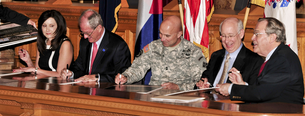 From left, Wendy Mitchell, Aurora Economic Development Council president and CEO; Aurora Mayor Steve Hogan; Maj. Gen. Joseph Anderson, then commanding general, 4th Infantry Division and Fort Carson; Jeff Thompson, chairman of the board, Aurora Chamber of Commerce; and George H. Peck, senior vice president, Aurora Chamber of Commerce; sign the Army Community Covenant between Fort Carson and the city of Aurora, March 8 at the state capitol in Denver. (Photo by James C. Burnett)